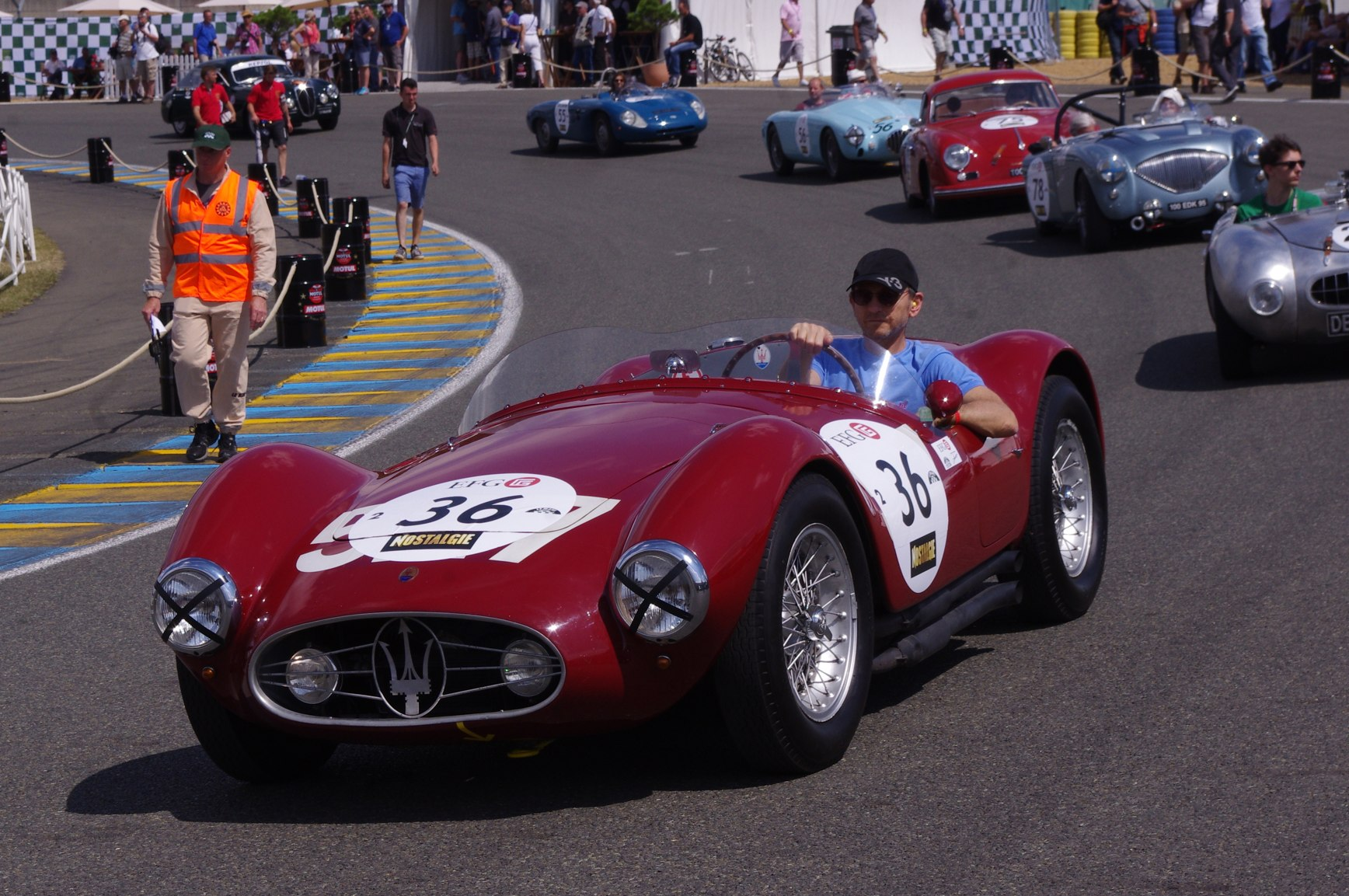 1954 Maserati A6GCS Fantuzzi s/n 2066 driven by owner Martin Sucari at Le Mans Classic 2014